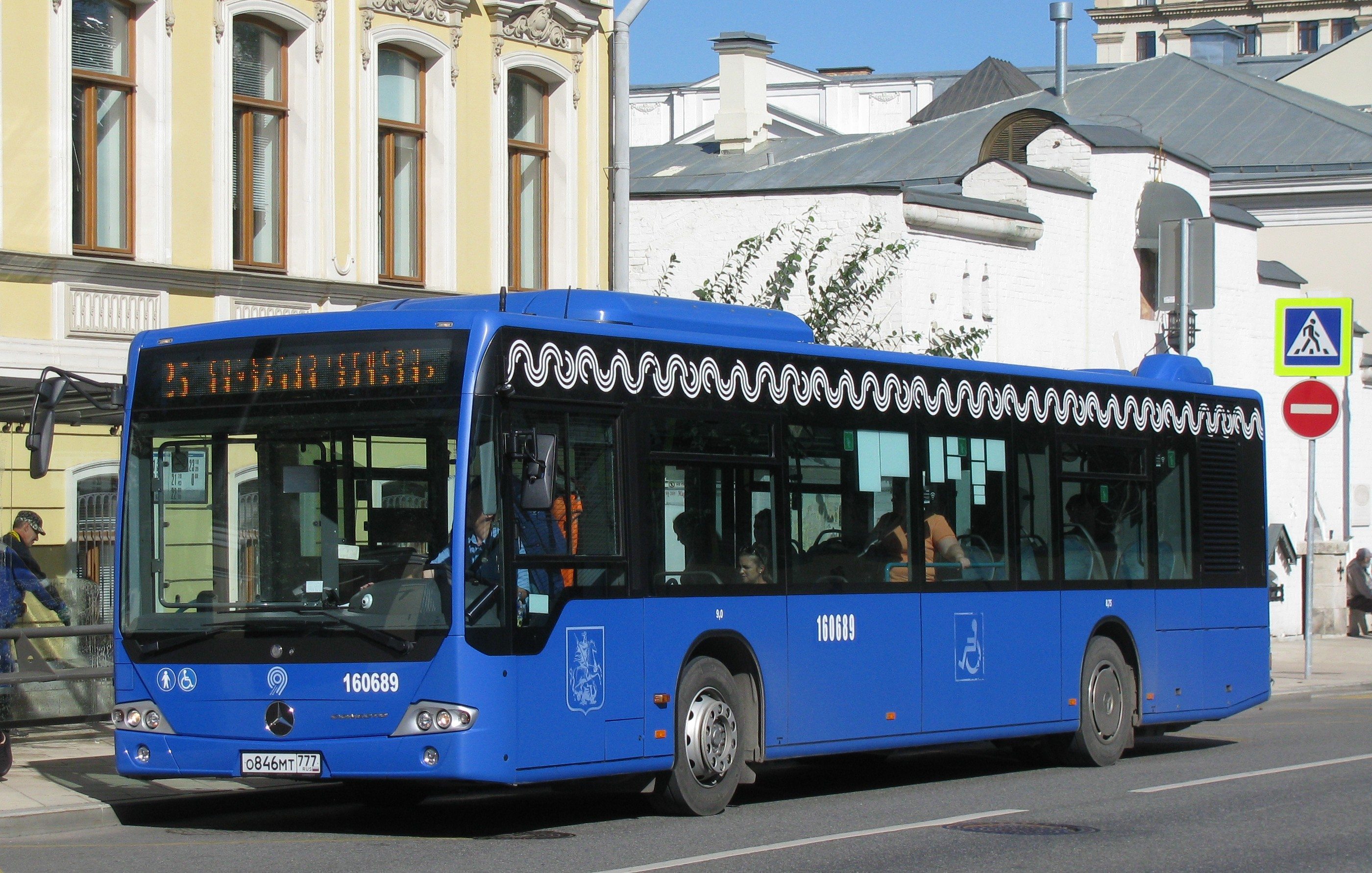 Mercedes-Benz Türk O345 Conecto LF at Bolshaya Ordynka Street, Moscow